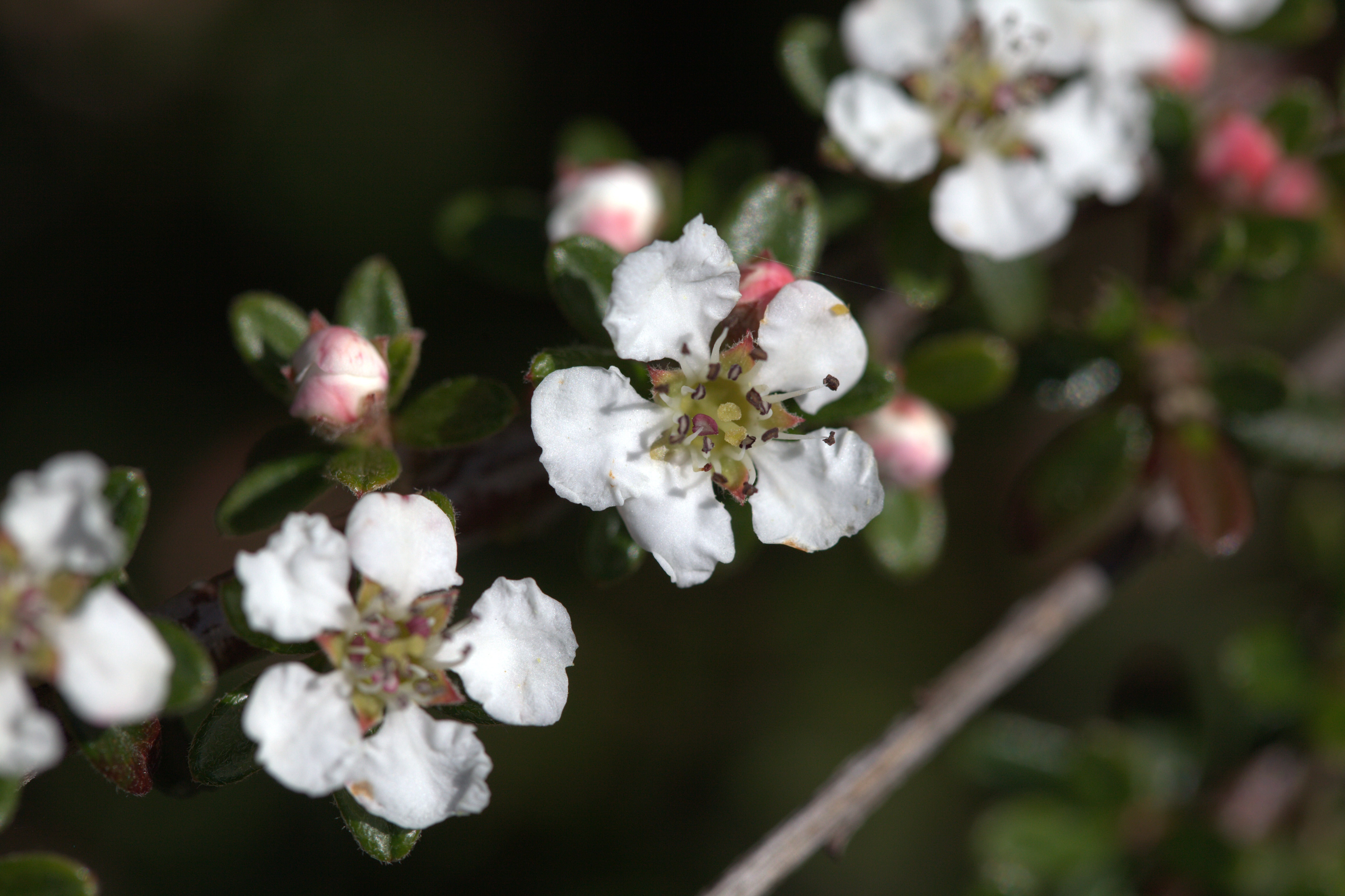 Photo taken at Gothenburg botanical garden. Specimen id: 1946-3839 p G Plant collected in 1946 from a garden in Sofiero.